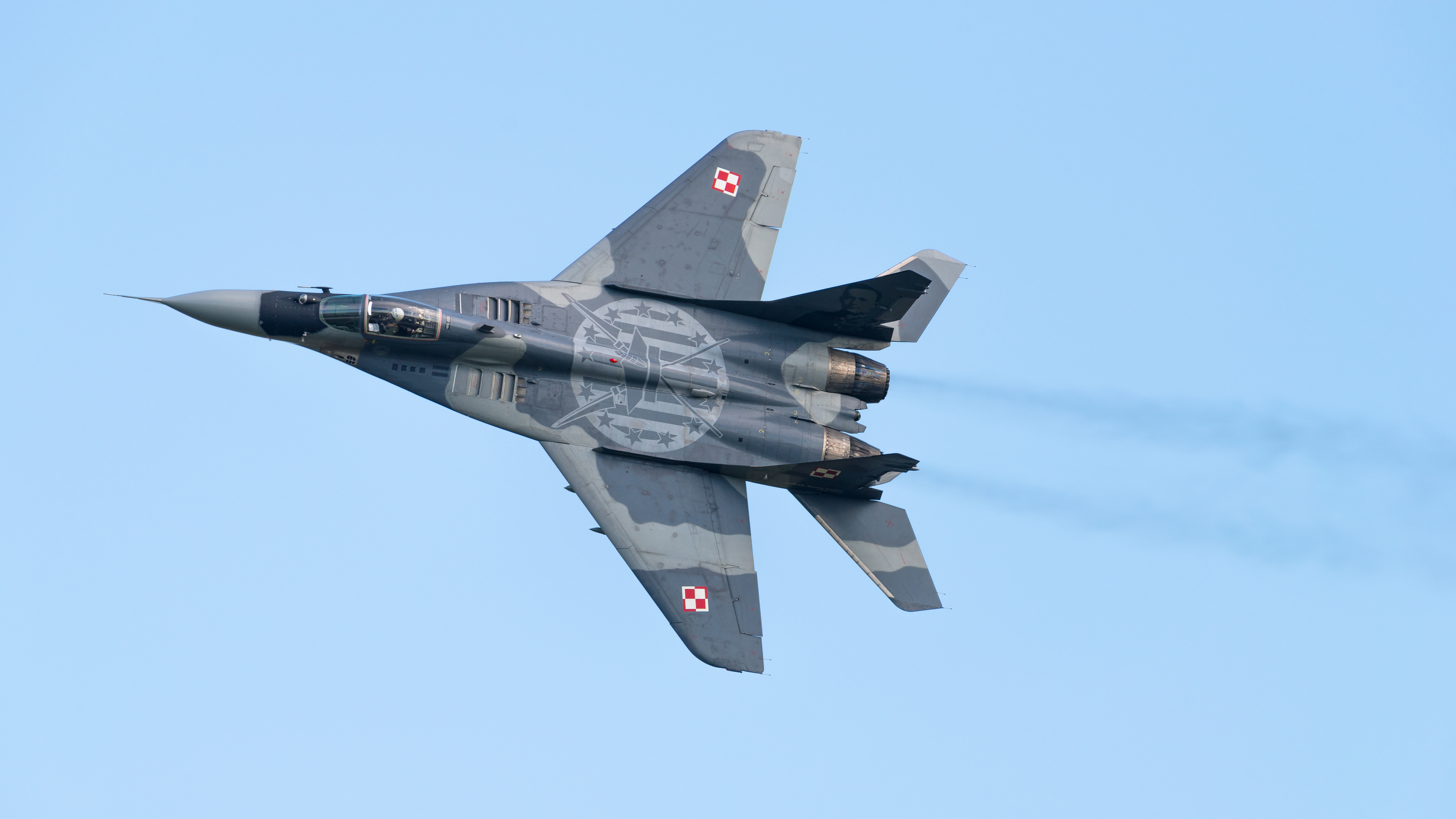 Polish Air Force Mikoyan-Gurevich MiG-29A Fulcrum (reg. 105, cn 2960535105) at ILA Berlin Air Show 2016.